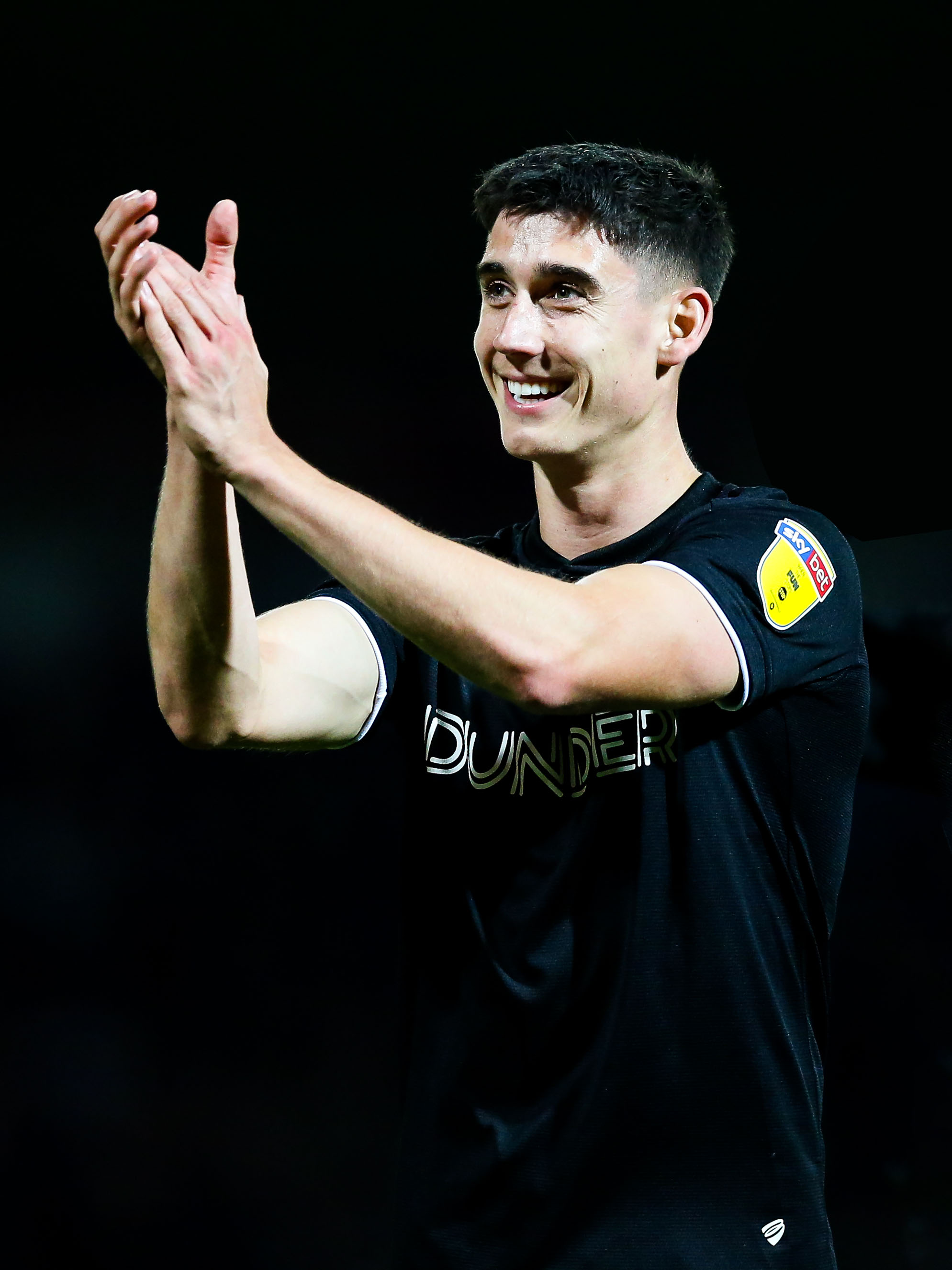 Callum O'Dowda of Bristol City thanks the away fans after a late Bristol City goal rescues a 1-1 draw against Brentford at Griffin Park